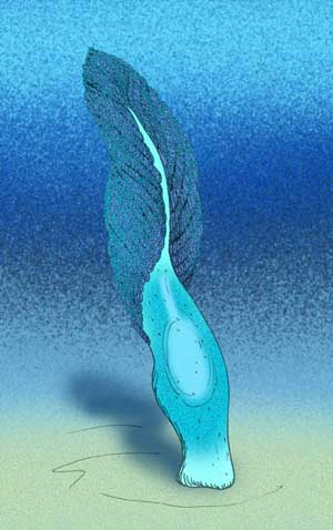 Reconstruction of the sessile ctenophore relative, Stromatoveris psygmoglena, from the Chengjiang Fauna of Lower Cambrian Yunnan